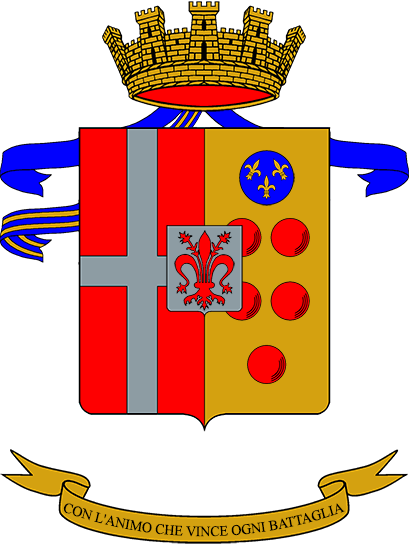 Coat of Arms of the 9° Cavalry Regiment; Italian Army.